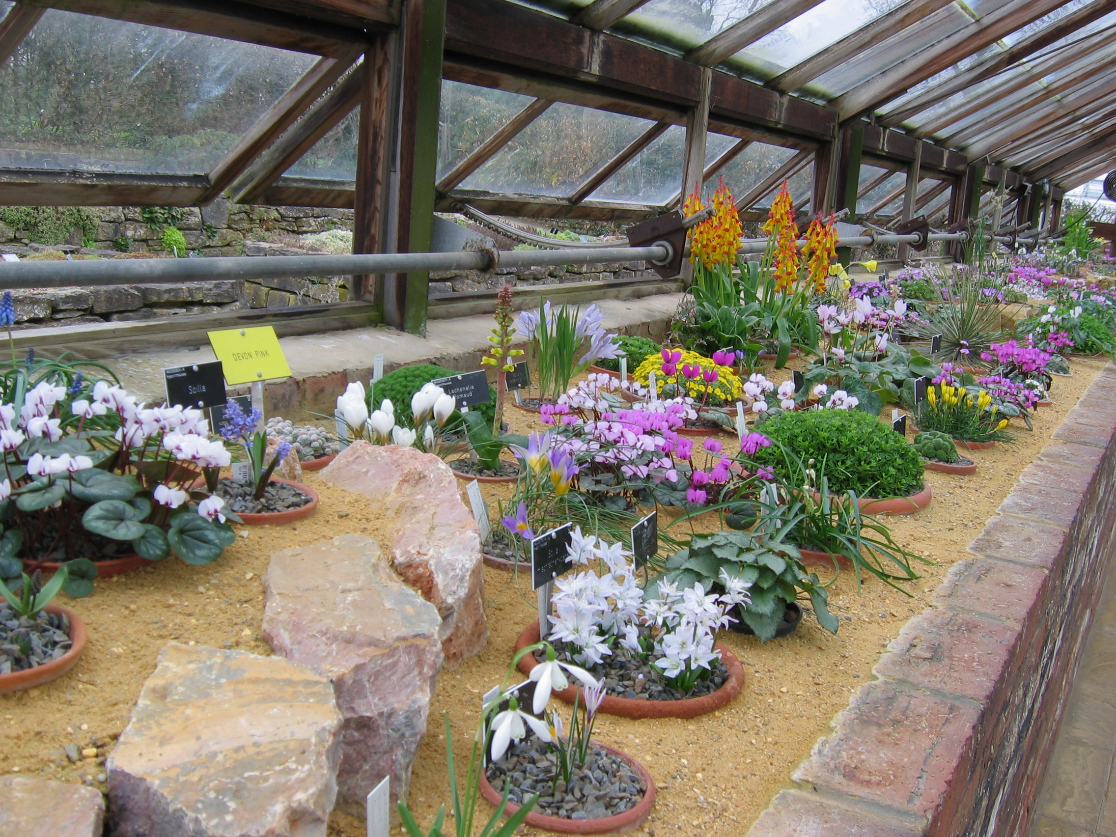 In one of the alpine houses at the Royal Horticultural Society's Wisley Garden.